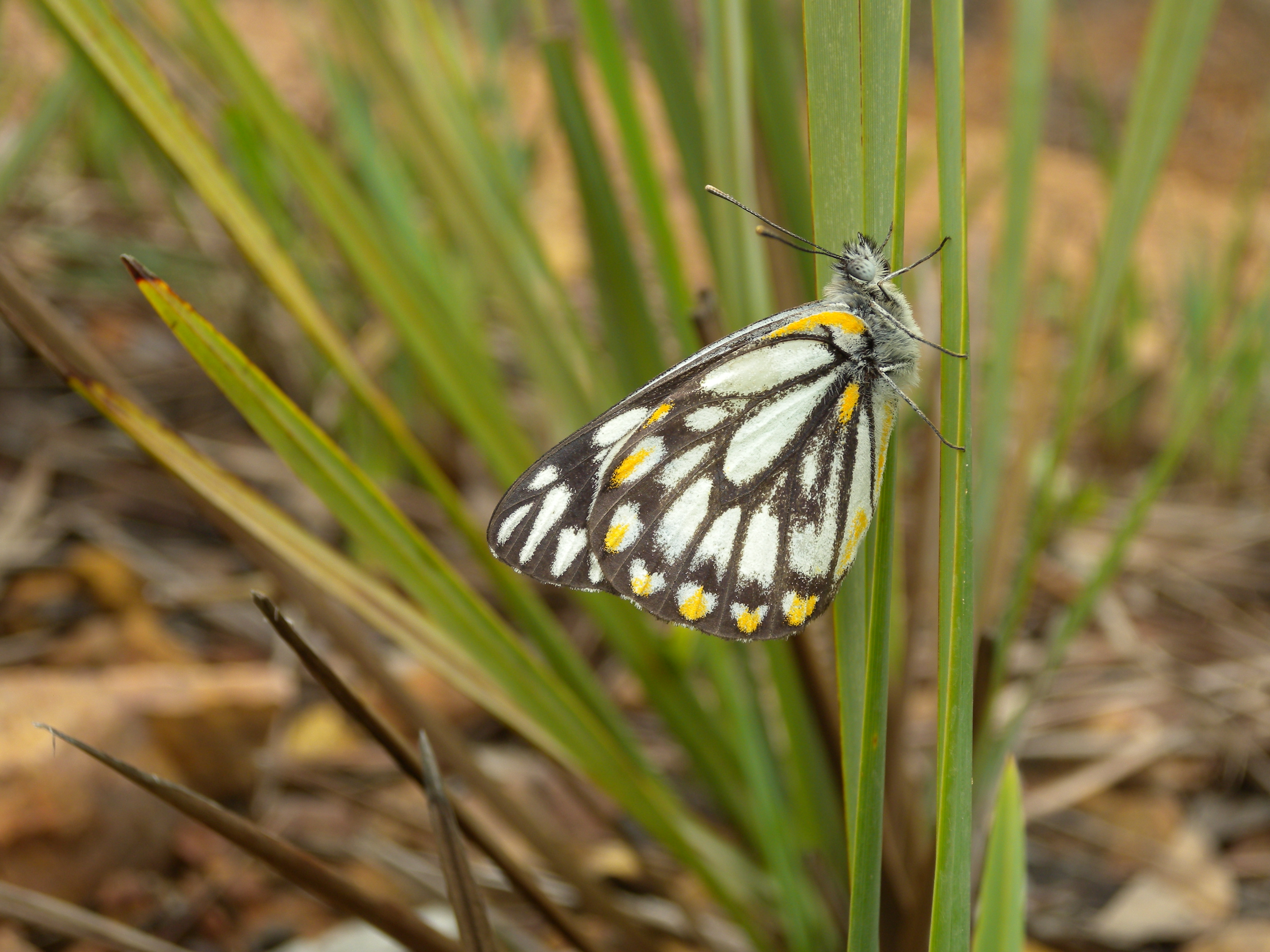 Belenois java (Linnaeus, 1768), Caper White, Black Mountain, Canberra, ACT, 7 October 2009